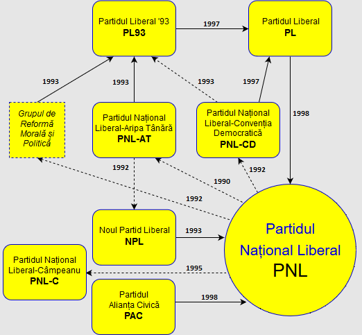 Romanian liberal forces formed by the National Liberal Party in the 90s